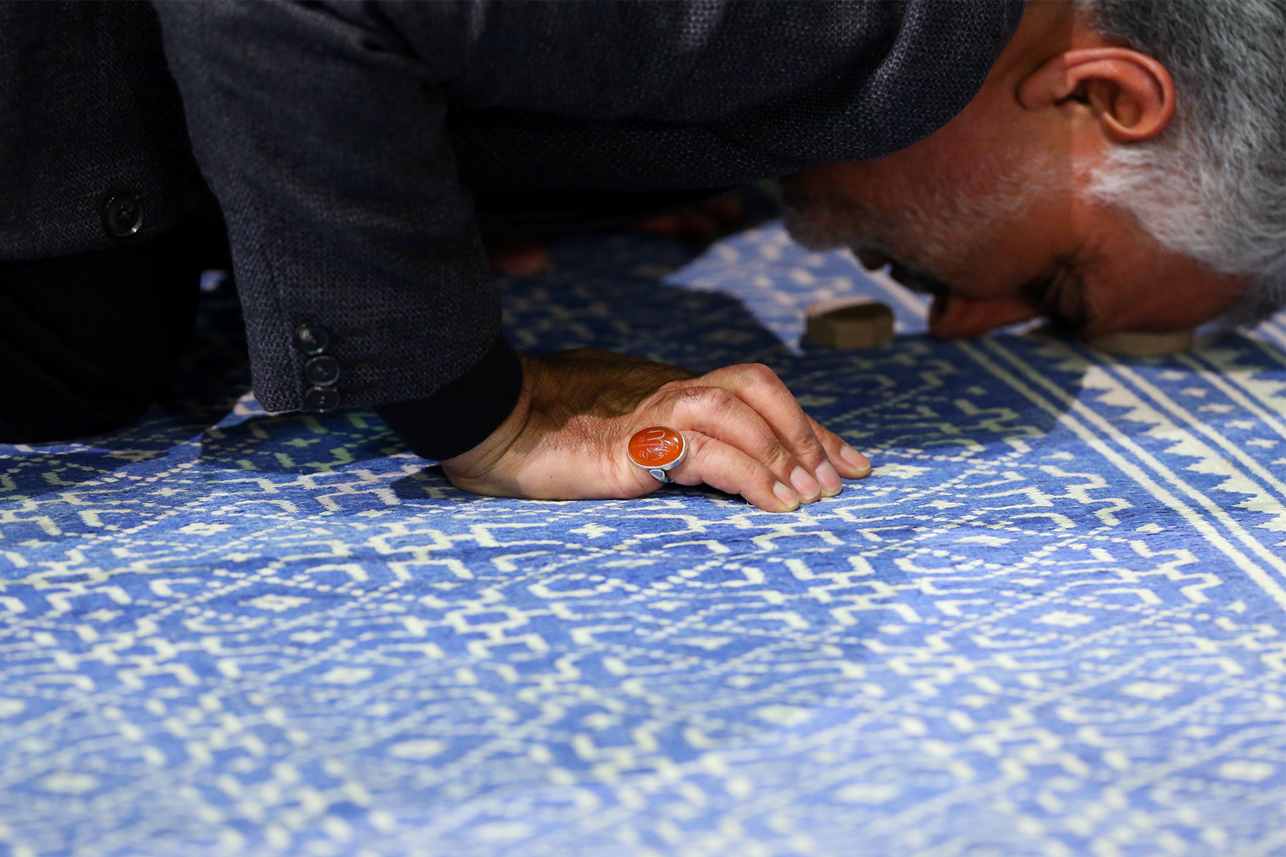 Qasem Soleimani Saying Prayer in Imam Khomeini Hossainiah in Tehran